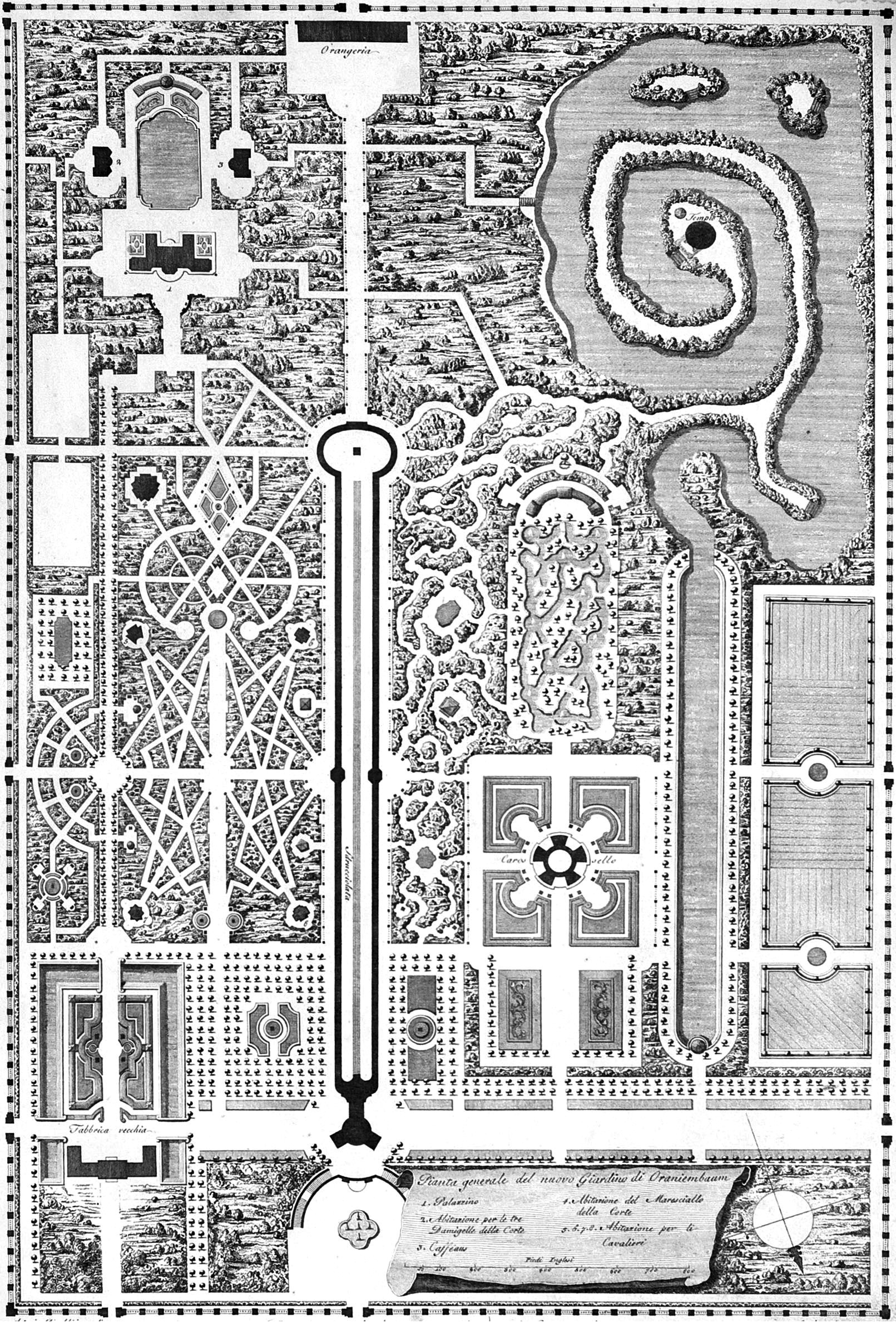 The map of the Sobstvennaya Dacha ensemble in Oranienbaum, Russia (made by A. Rinaldi, first published in 1796)